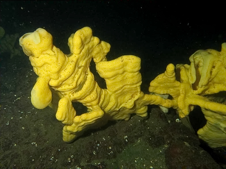 Caption:Aphrocallistes vastus. Cloud sponges are found down around 100' in areas with little or no current. They are very fragile, as they are made out of tiny glass crystals (hydrated silica dioxide).